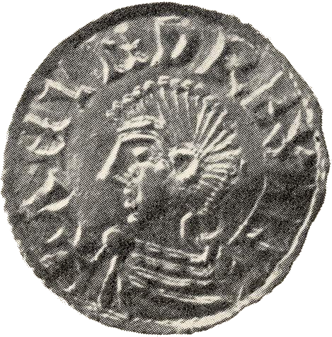 King Anwynd James (Anund Jakob) of Sweden as depicted on one of his coins